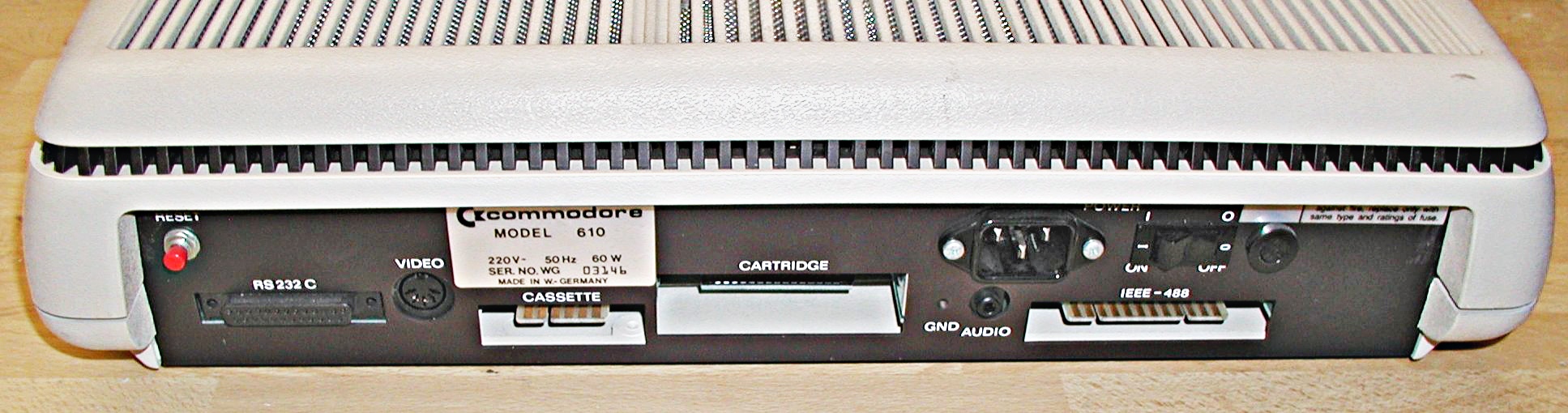 Back of a Commodore CBM610 Computer Interface connectors from left to right: Serial port RS232C (V24) Composite Video Datasette edge connector Cartridge Audio (analogue, monophone) IEEE-488 (GPIB) edge connector